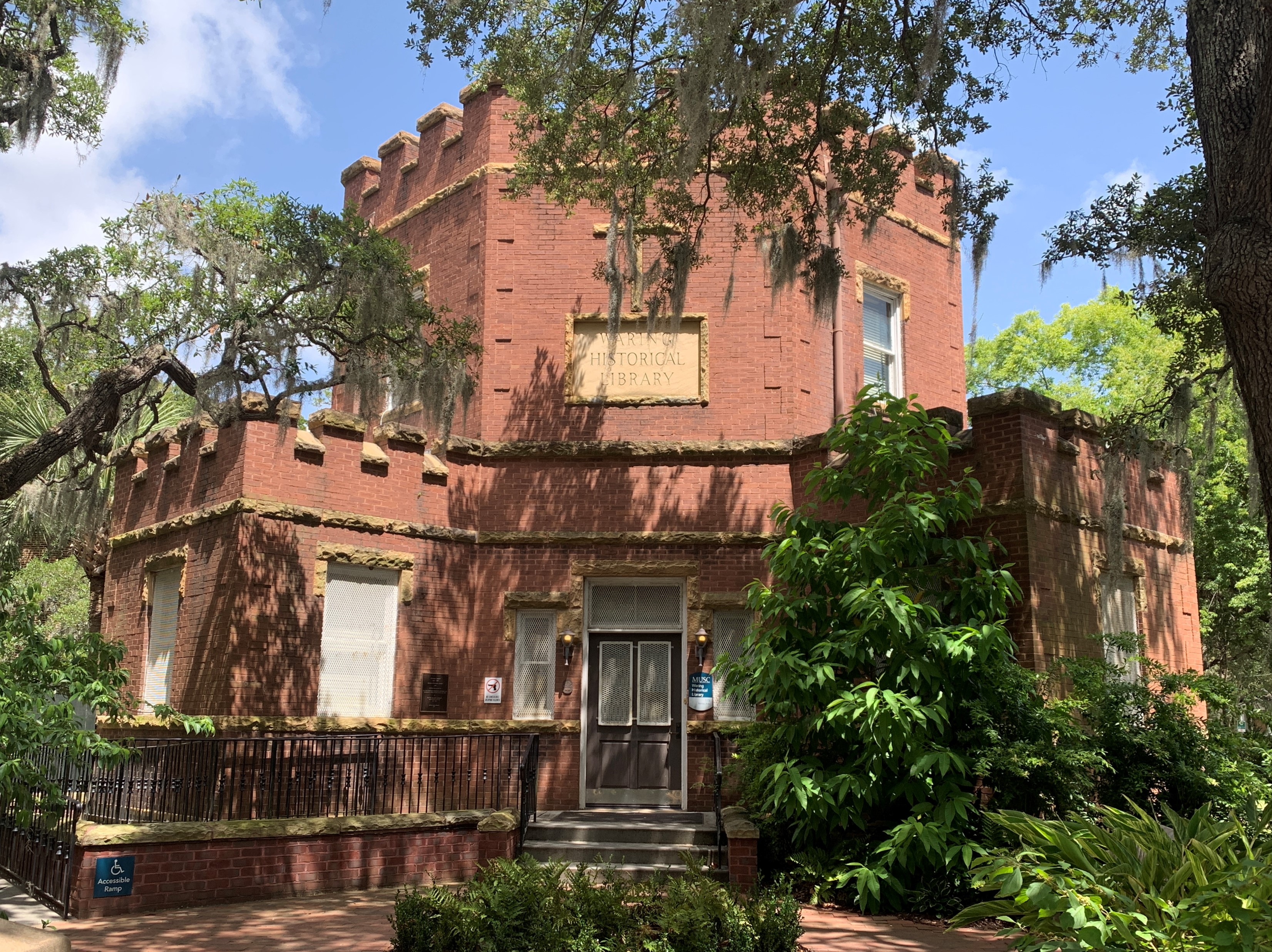 173 Ashley Avenue, Charleston, South Carolina